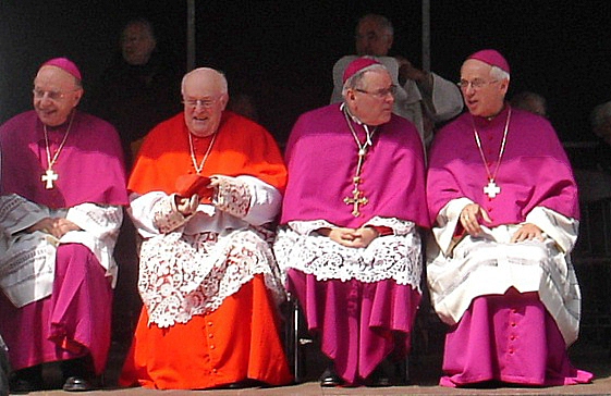 Monsignor Rauber, Cardinal Danneels, Monsignor Vangheluwe and his sucessor Monsignor Jozef De Kesel, both bishop of Bruges. Msgr. Vangheluwe is old-Bishop of Bruges, and was succeeded by Msgr. De Kesel after a case of child-abuse.